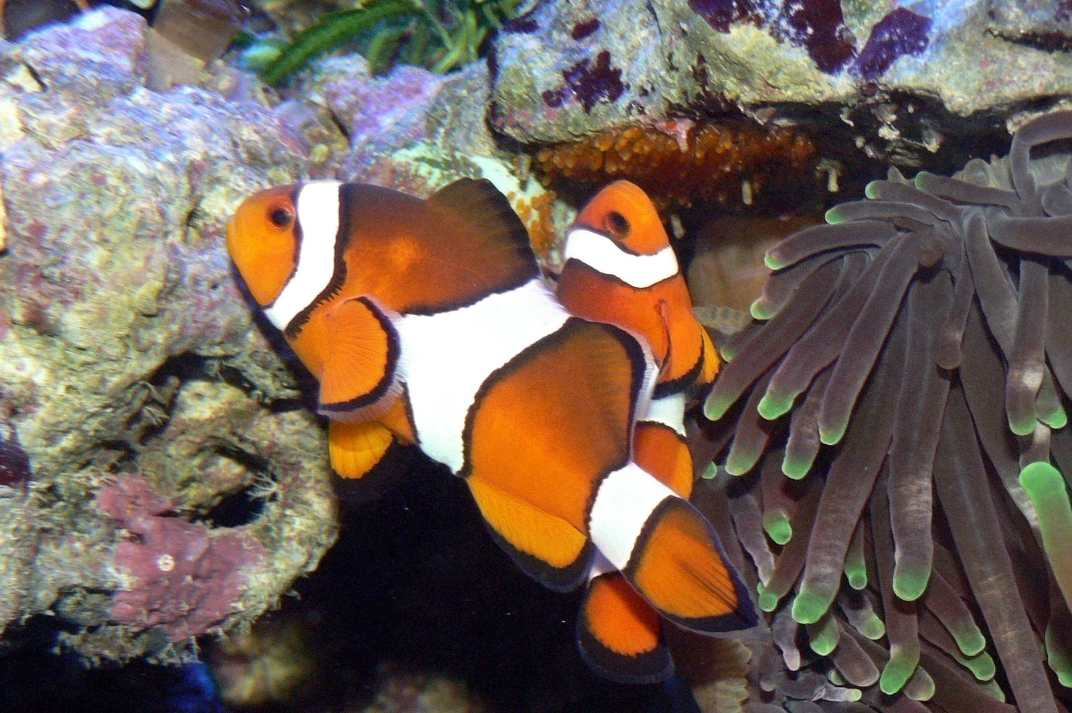 Based on this image: Image:Gelege_pflegende_perculas.jpg